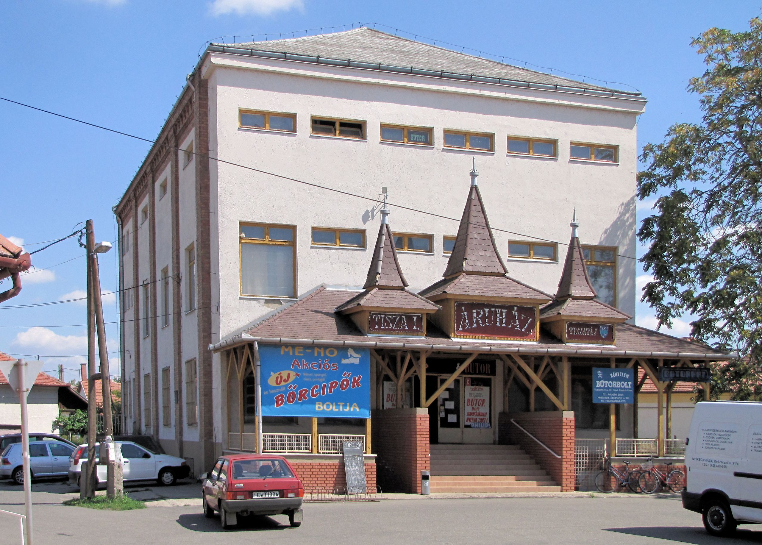 Former Synagogue in Tiszafüred, Hungary